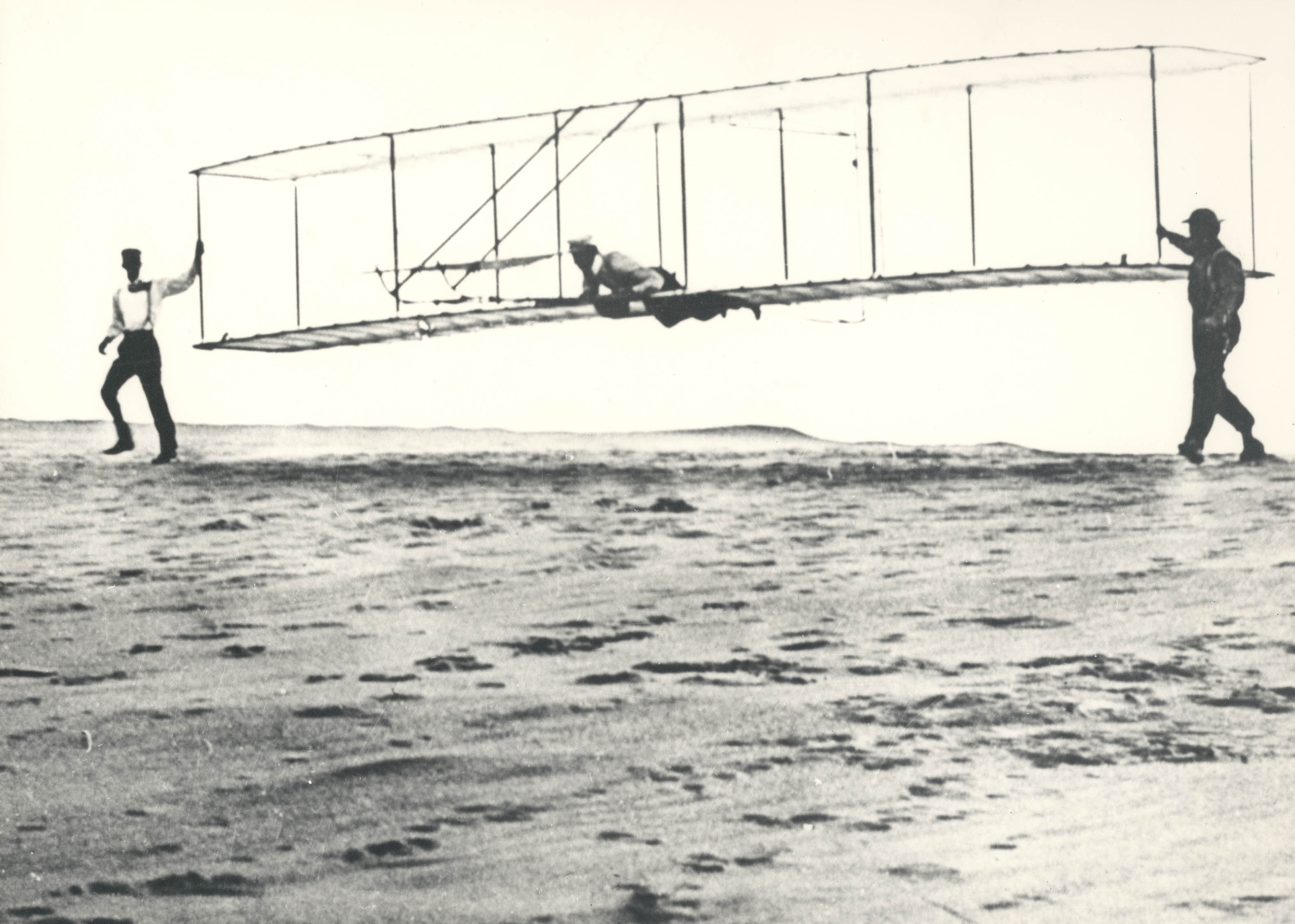 Historic photo of the Wright brothers' third test glider being launched at Kill Devil Hills, North Carolina, on October 10, 1902. Wilbur Wright is at the controls, Orville Wright is at left, and Dan Tate (a local resident and friend of the Wright brothers) is at right. The 1902 test gliders were extremely important to the development of the first powered airplane. The new glider design was based on the wind tunnel tests performed by the Wrights in 1901. The improvements to the glider included a new rudder that helped provide three-dimensional control of the aircraft. Image # : wrightflyer-1902